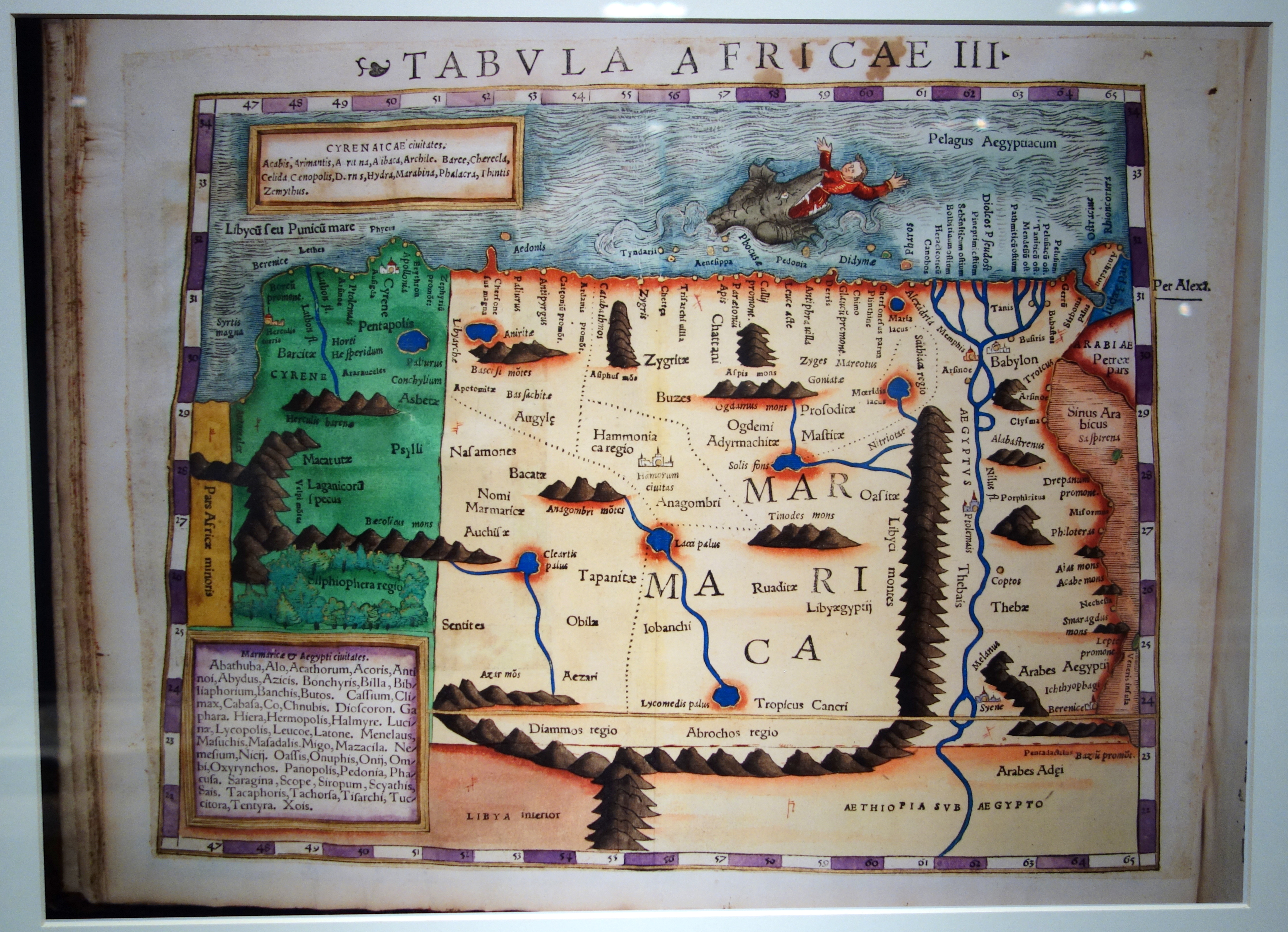 The 3rd African Map (Tertia Africae Tabula) from Ptolemy's Geography. Exhibit in the Robert C. Williams Paper Museum, Atlanta, Georgia, USA. This work is old enough so that it is in the public domain.